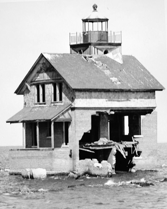 Cedar Point Light (demolished), Saint Mary's County, Maryland, USA